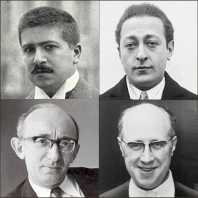 Images from Wikimedia Commons of four soloists – Jascha Heifetz, Artur Schnabel, Clifford Curzon and Mstislav Rostropovich – who featured significantly in Malcolm Sargent's recorded repertoire.